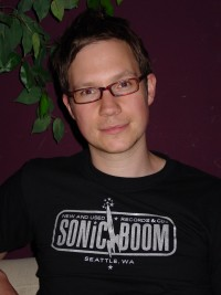 Photograph of musician Matt Hales, aka Aqualung Digital photo by Nancy J Price (c) 2005 Date: June 2005 Location: Tempe, Arizona, USA Source/uploaded by: Nancy J Price